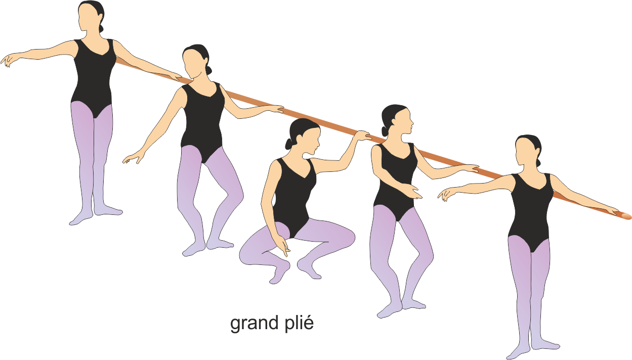 Ballet barre exerecises: Grand plié